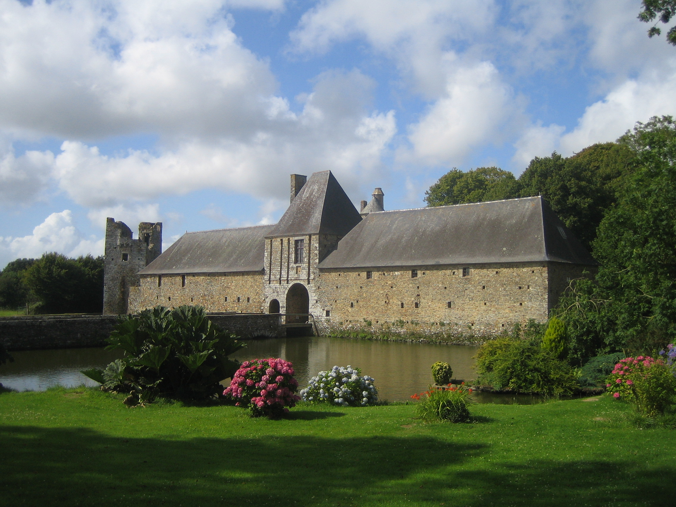 Gratot Castle, Château de Gratot, Département de la Manche, Region Basse-Normandie, France.